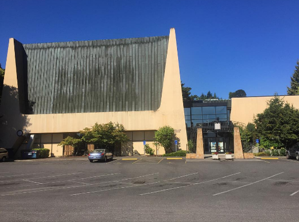 Temple Shaarie Torah in Northwest Portland